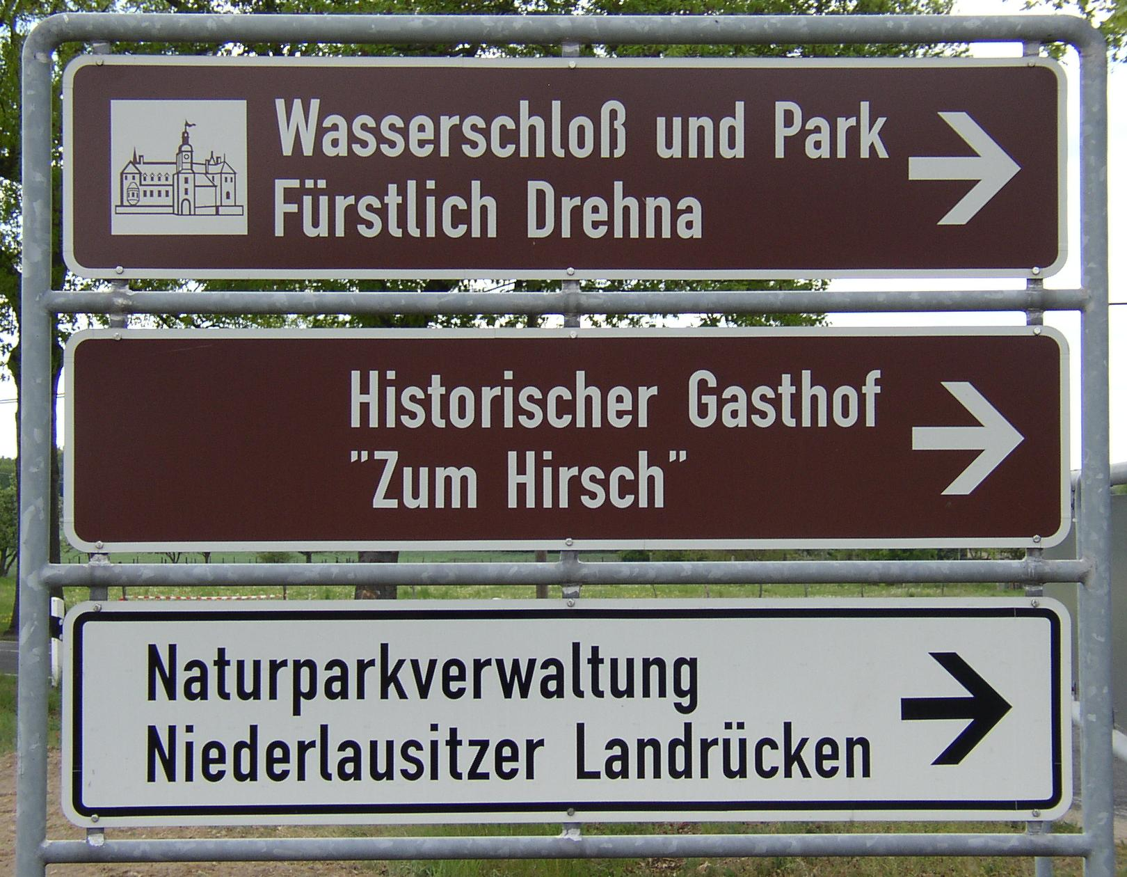 Road signs in Luckau in Brandenburg, Germany